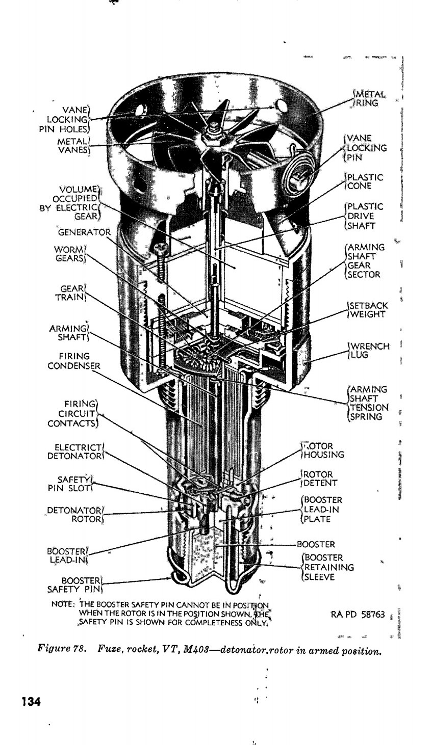 cutaway drawing of M403 VT fuse from 1950 edition of TM 9-1950 Rockets